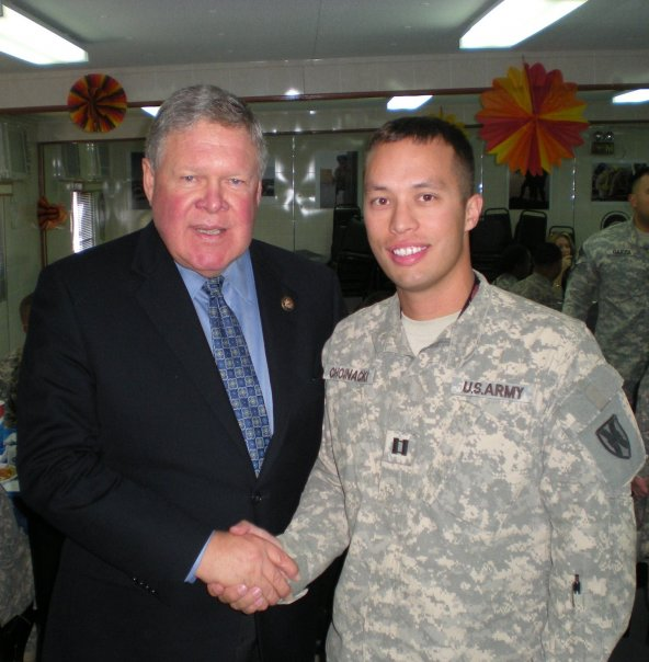 Norman Dicks (US House of Representatives - WA) greets a US Soldier in Camp Arifjan, Kuwait in 2010.